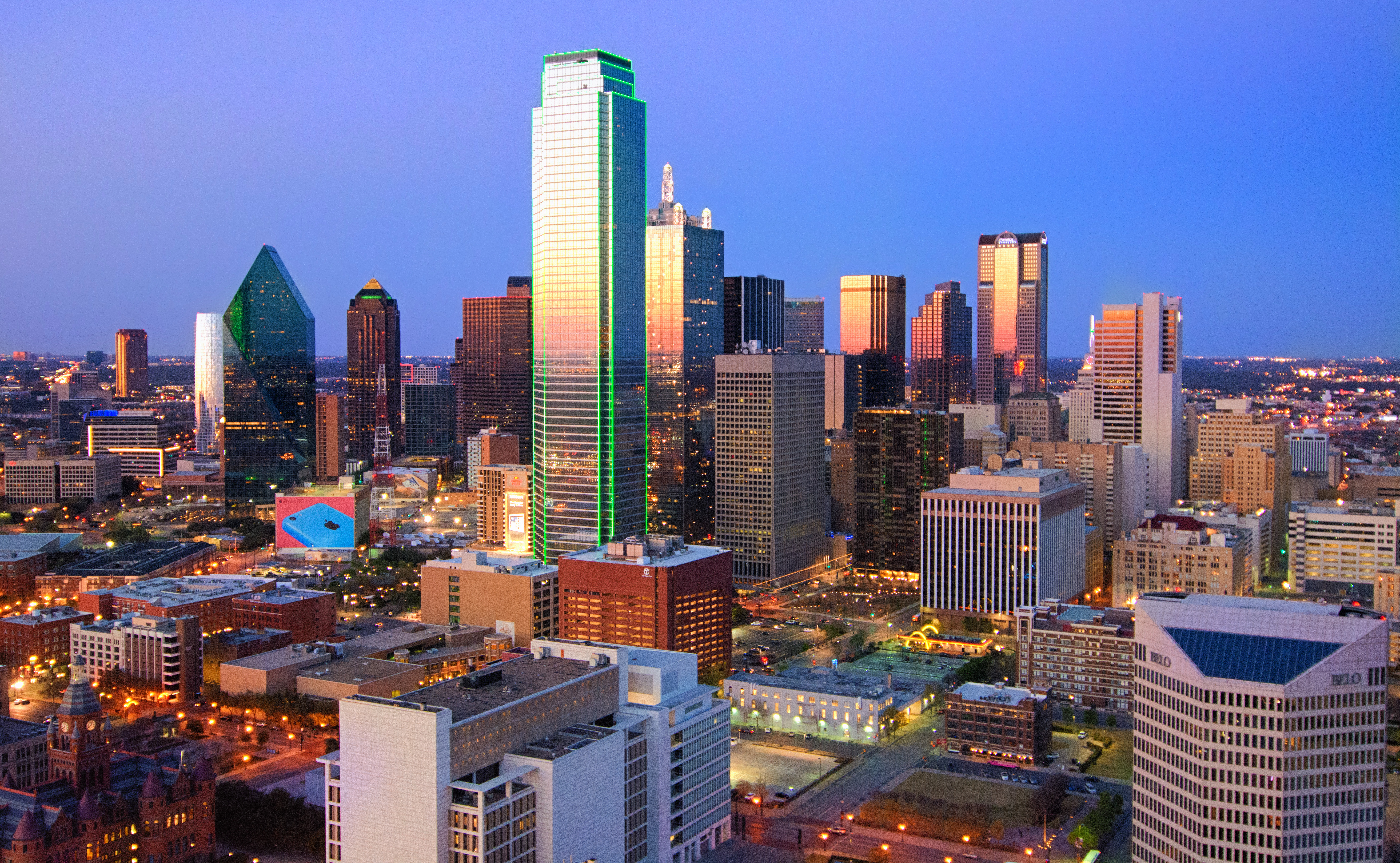 Dallas dowtown, Texas.